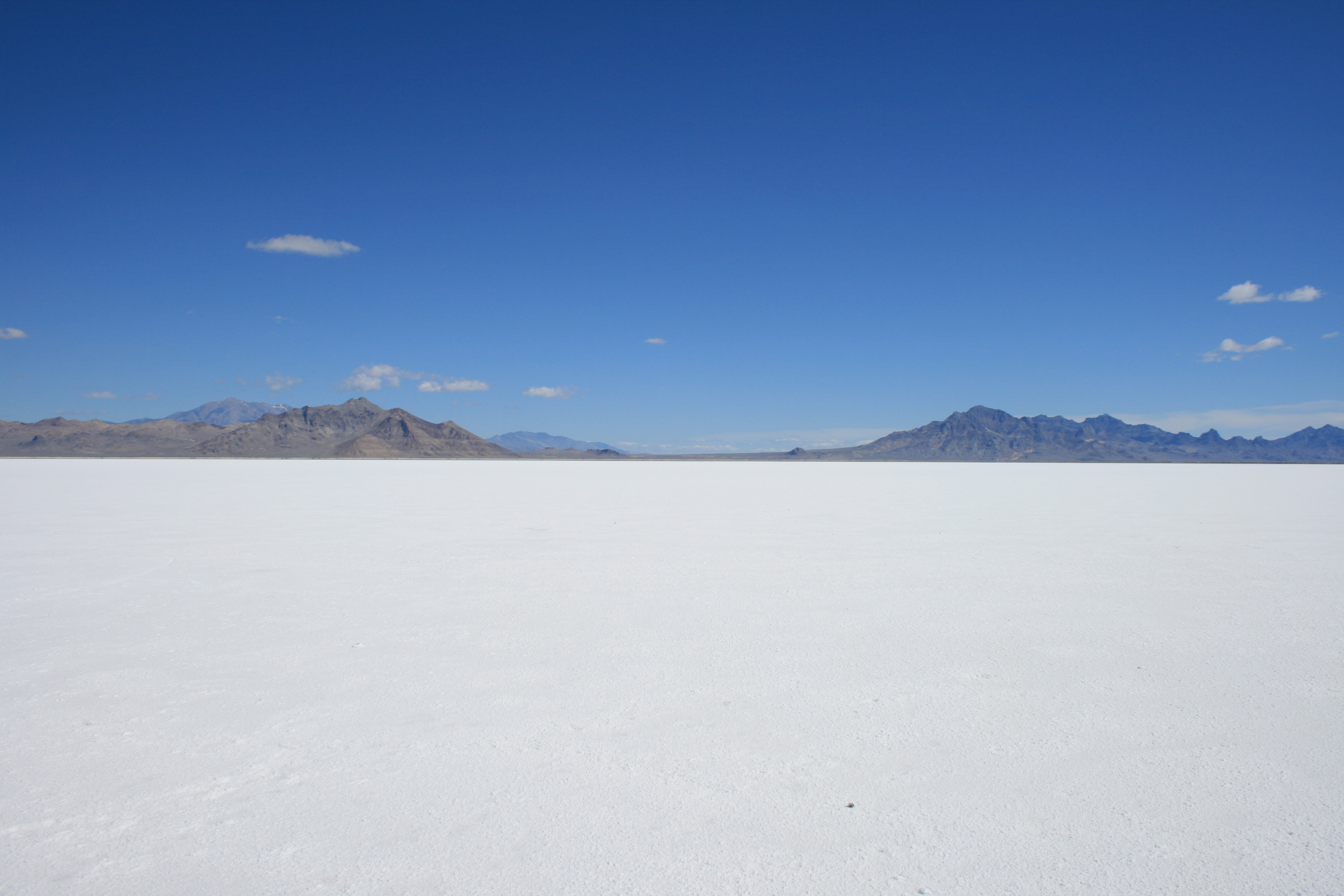 Bonneville Salt Flats at Interstate 80, rear left at the horizon Pilot Peak; USA Utah; 2008-06-12. Foreground peaks are 6000+ ft, (2000 ft above Bonneville), peaks in the linear Silver Island Mountains. Pilot Peak is the massif of the Pilot Range.